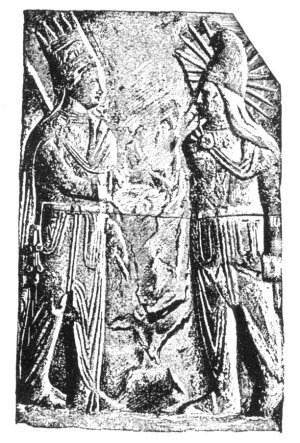 KING ANTIOCHUS AND MITHRA. Bas-relief of the temple built by Antiochus I of Commagene, 69-31 BCE, on the Nemrood Dagh, in the Taurus Mountains